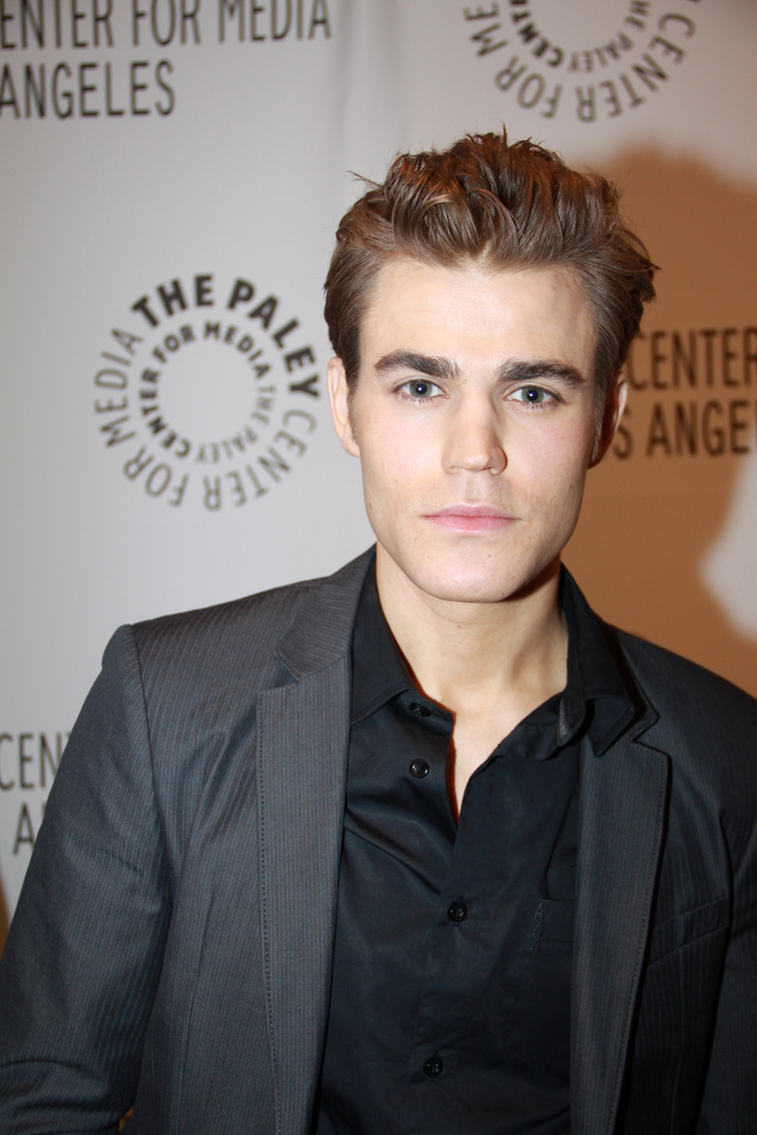 Paul Wesley at PaleyFest2010's "The Vampire Diaries" night at the Saban Theatre, Los Angeles, on March 6th, 2010.